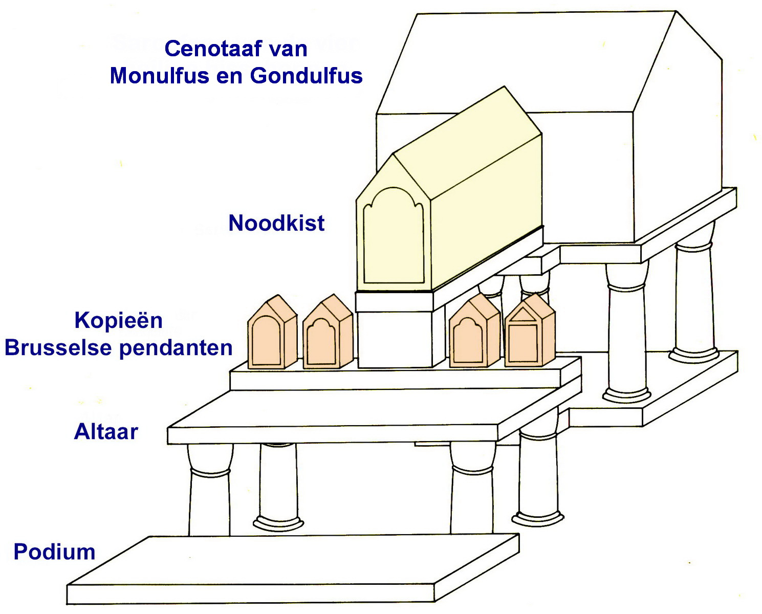 Configuration of the Reliquary chest of Saint Servatius and the copies of the four Brussels reliquary tablets (of St Monulph, St Gondulph, St Valentine and St Candidus) behind the main altar of the church of Saint Servatius in Maastricht, Netherlands. Situation: late 19th c. (after R. Kroos, Der Schrein des heiligen Servatius in Maastricht, p. 401).